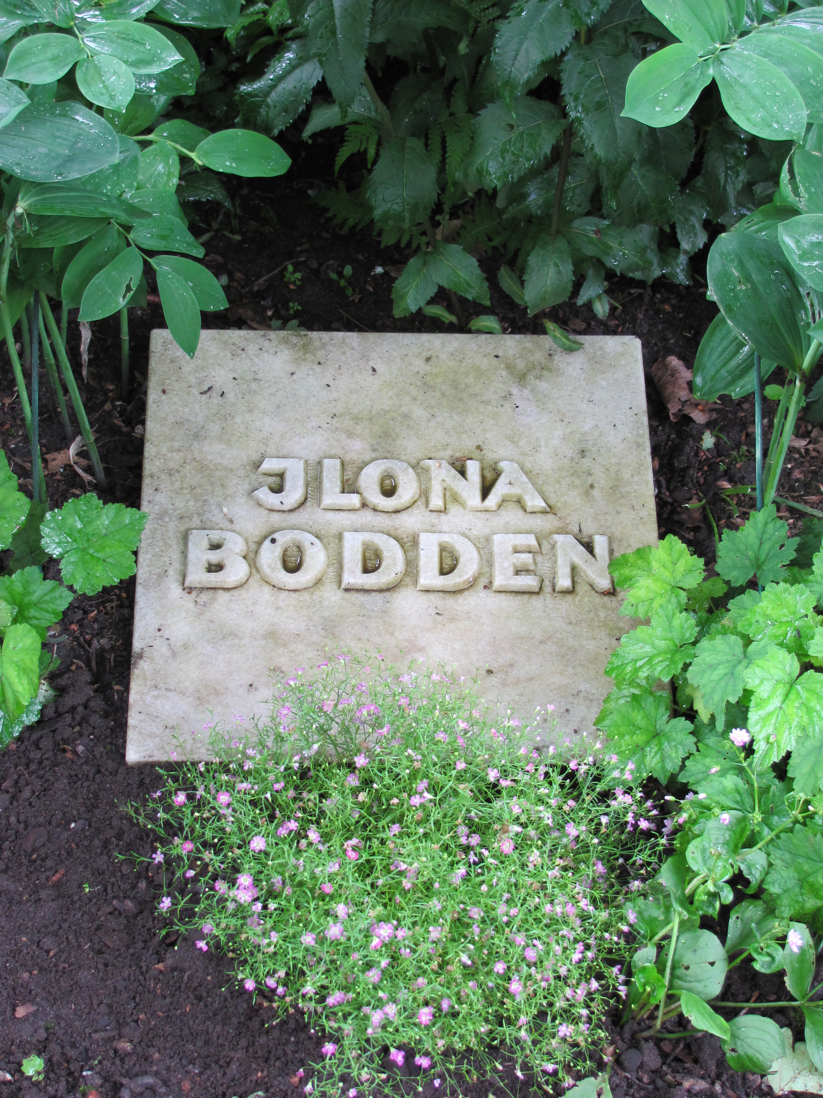 Burial site of Ilona Bodden, Ohlsdorf cemetery, Hamburg